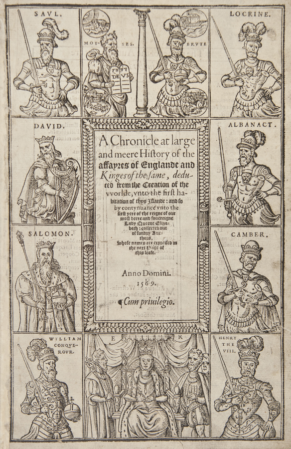 Title page of Richard Grafton, A Chronicle at Large (London, 1569)